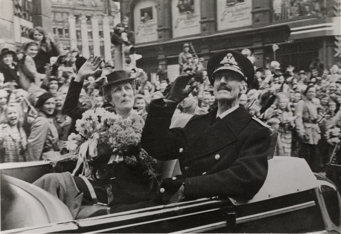 King Haakon returns to Norway after World War II.